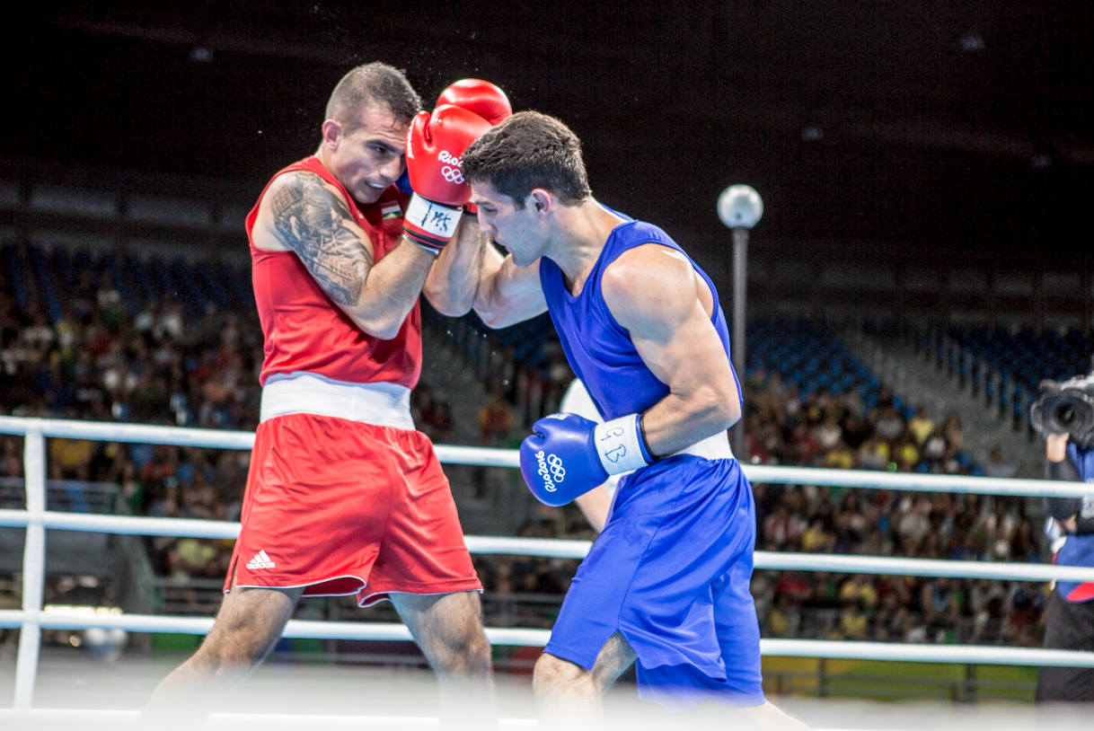 Day 3 at the 2016 Summer Olympics. Boxing 75 kg. Round of 32, Zoltán Harcsa (HUN) vs Arslanbek Achilov (TKM)